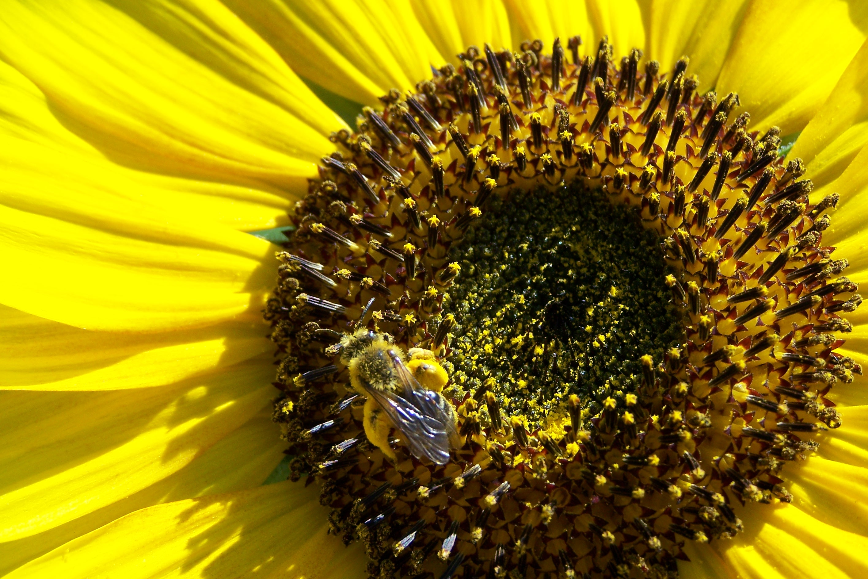 Close up of Sunflower Pollen and Bee